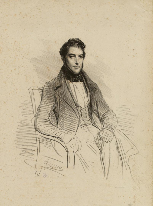 Adolphe Goupil, éditeur d'estampes, lithographic printed portrait, 32 x 28.5 cm.